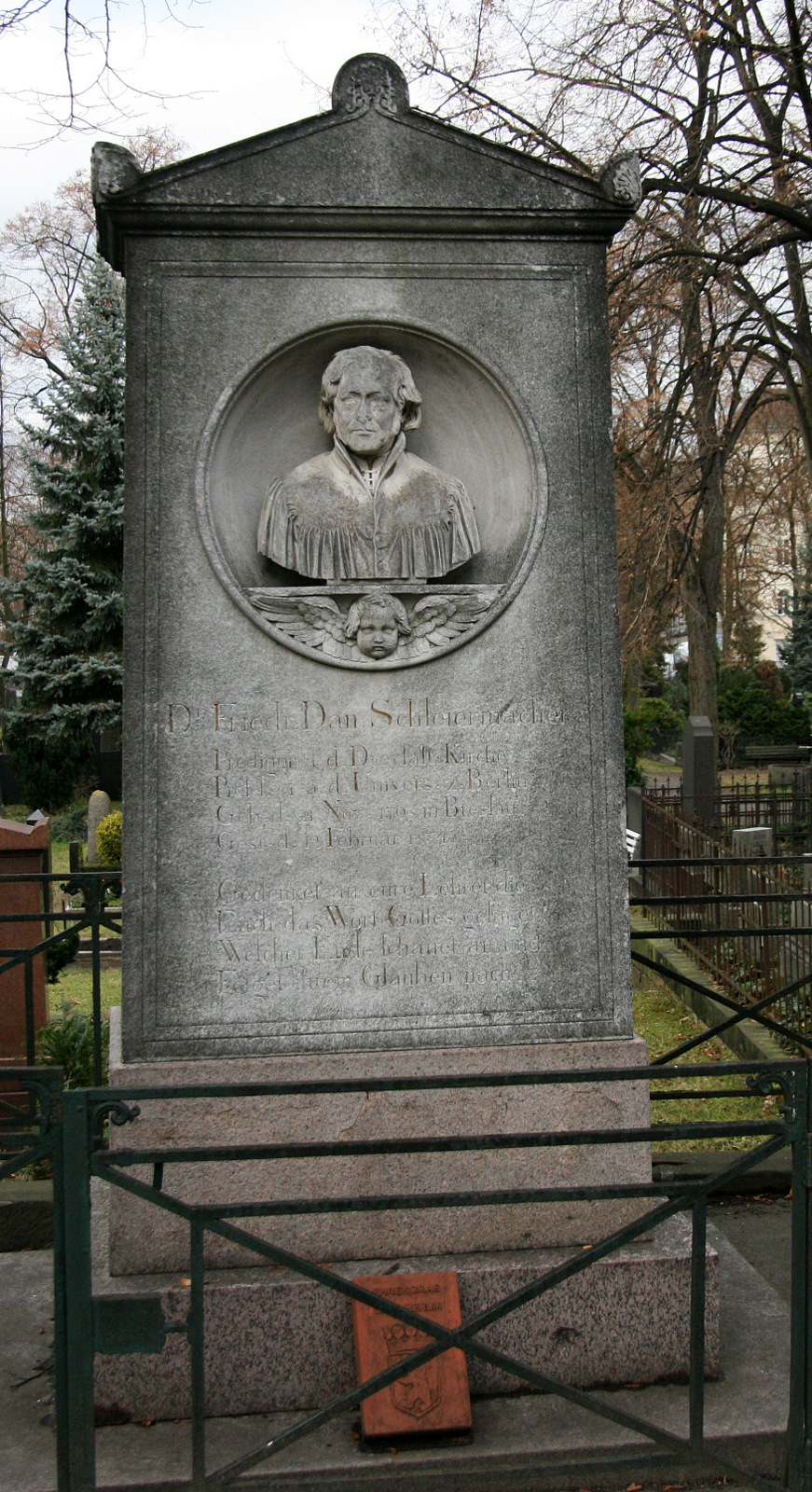 Tomb of FDE Schleiermacher